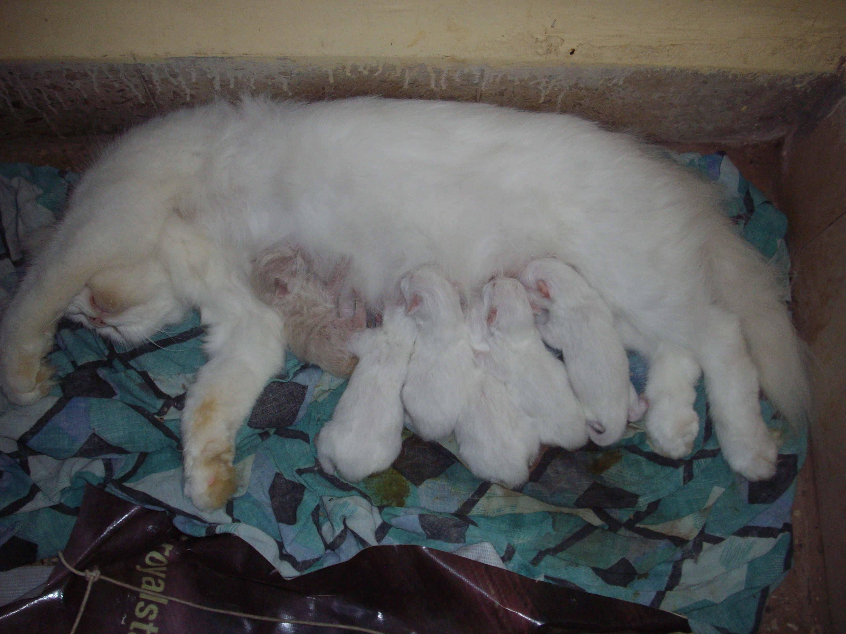 Doll faced Persian cat Matahari with her 6 kittens which are 2 days old. Most kittens of a large litter never survive in the wild, hence most feral cats average about 2 to 4 kittens/litter. “Persian” and other “Pedigreed Cats” have smaller litters barring the “Siameese” which has large litters upto 7 or 8. Mortality rate in large litters is high and on an average 2 or 3 survive to adulthood in “Pedigreed Cats” bred by breeders and “Pet Fanciers”. These kittens are just 2 days old.